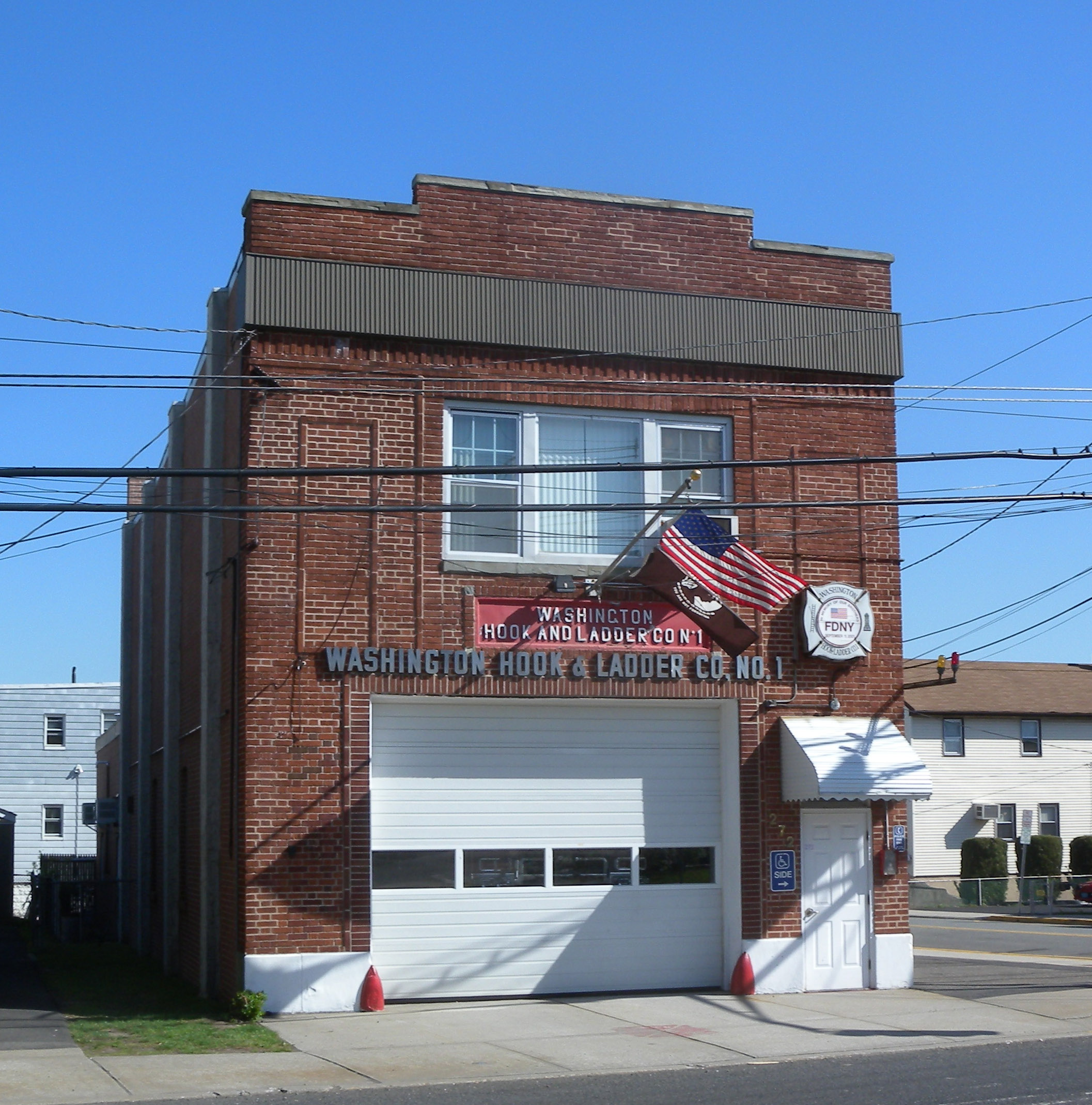 Looking southeast at Washington Hook & Ladder station on a sunny early afternoon.